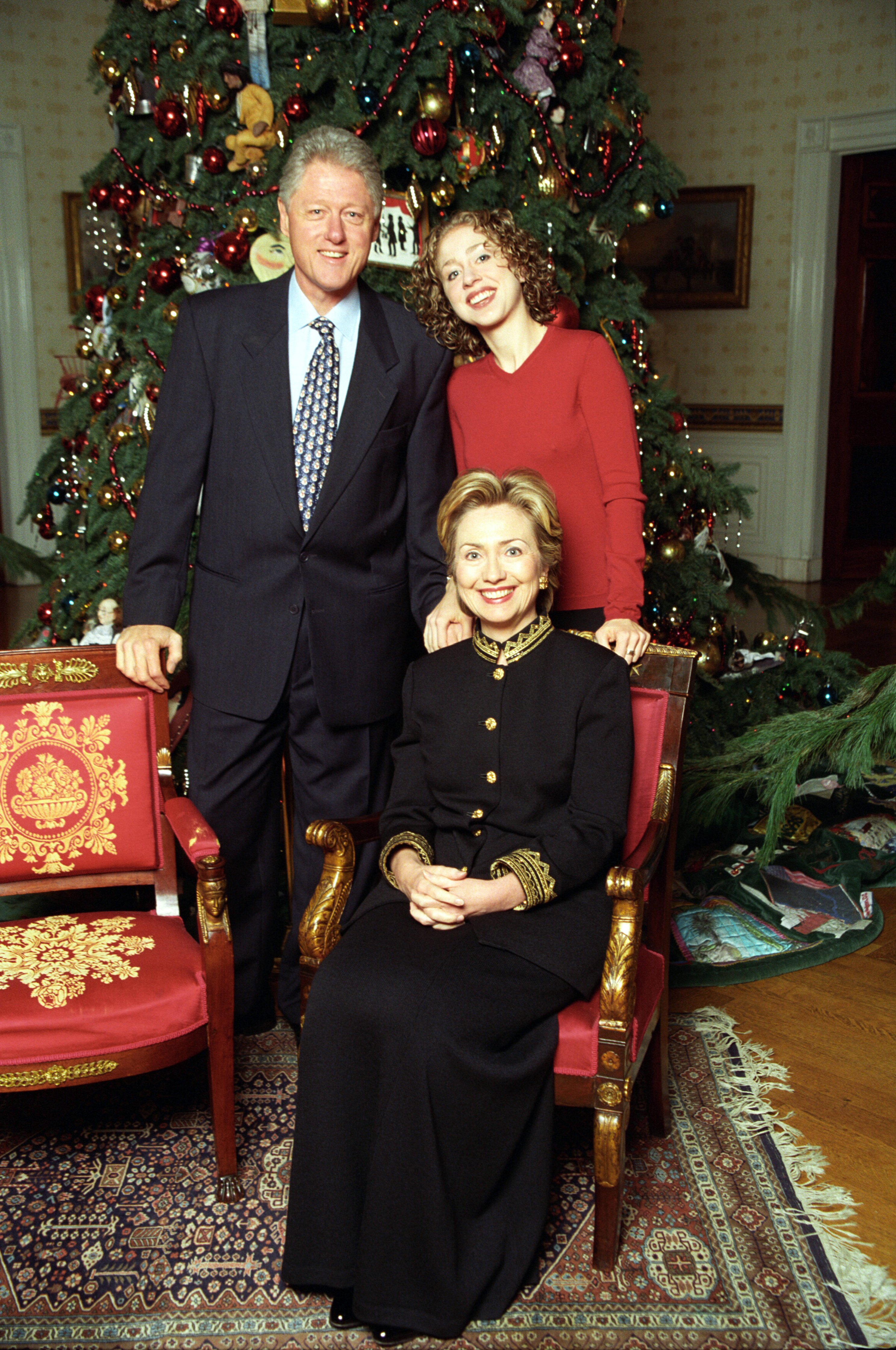 President Bill Clinton, First Lady Hillary Clinton and their daughter Chelsea pose for a photograph in front of the Blue Room Christmas Tree at the White House.